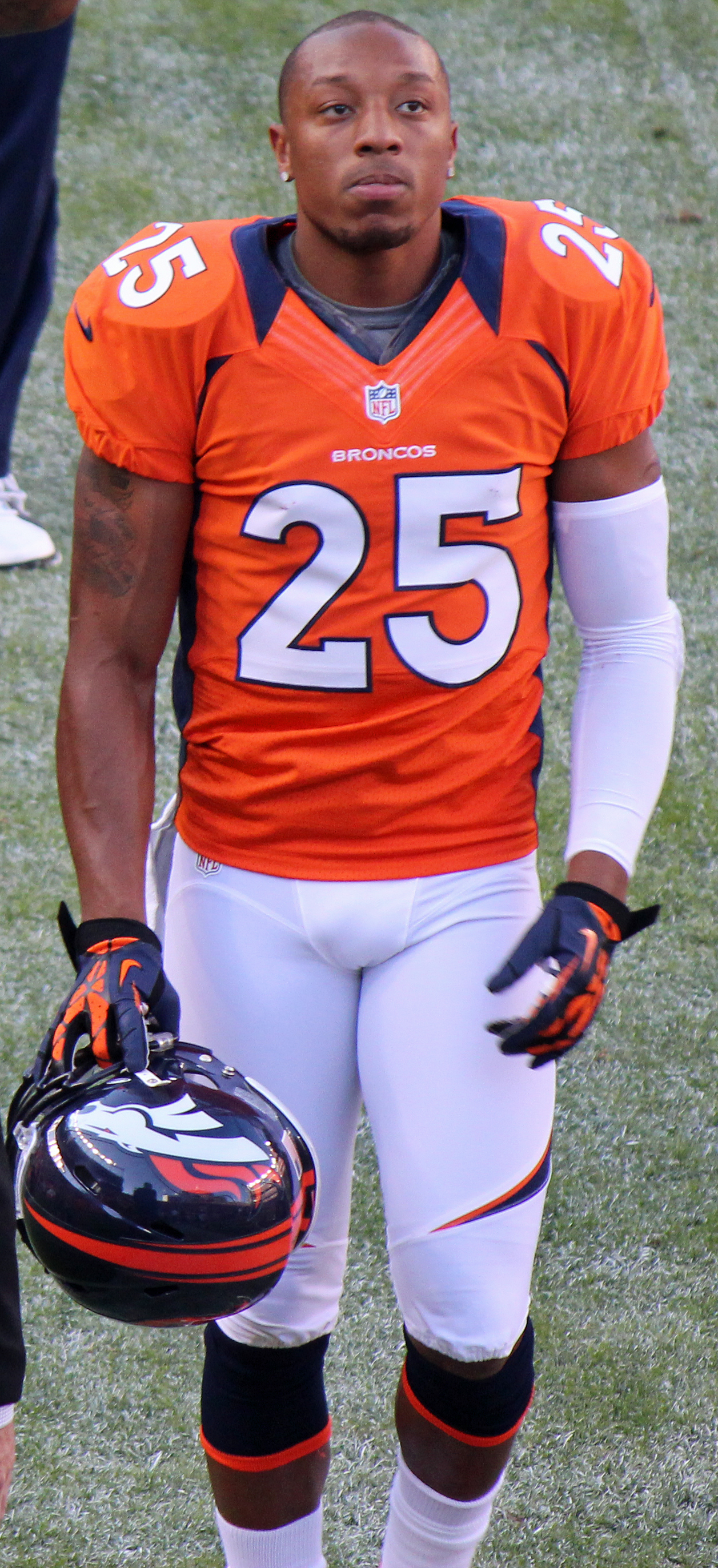 Chris Harris, Jr., a player on the National Football League.